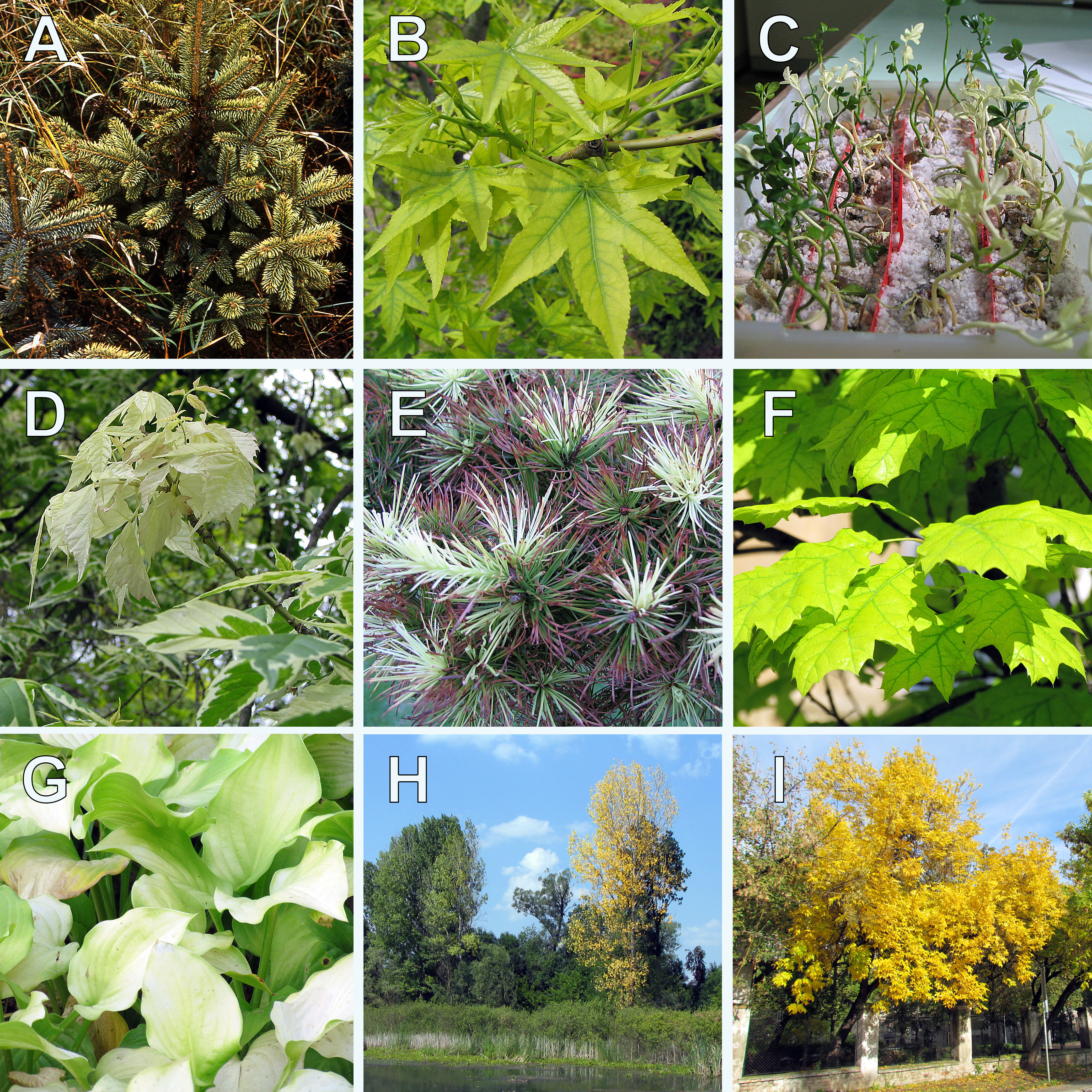 Different kinds of chlorosis.